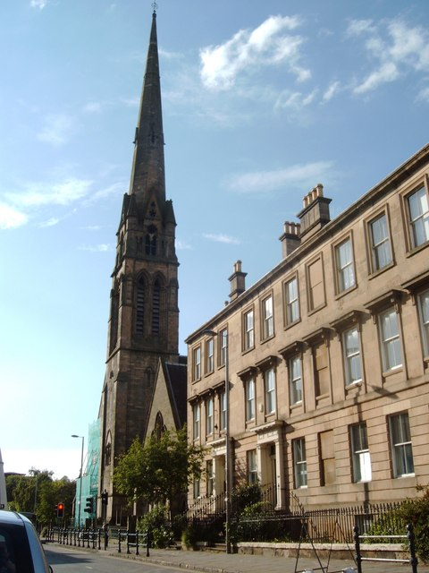 Landsdowne Church on Great western Road